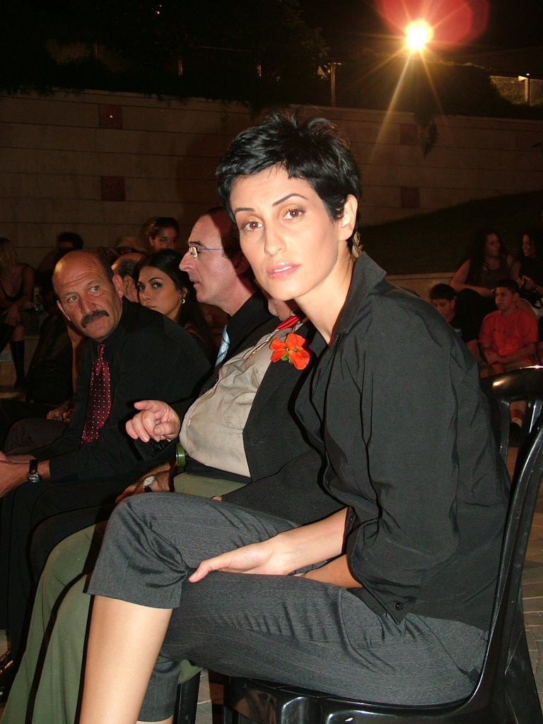 Natali Atiya